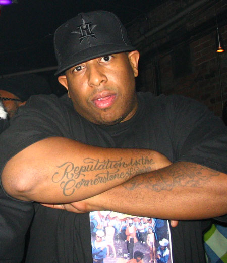 Portrait photograph of Christopher Edward Martin, commonly known by stage name DJ Premier